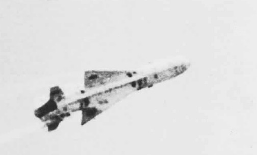 Photo of the first flight of an AGM-53 Condor air-to-surface missile at the U.S. Navy Naval Weapons Center, China Lake, California (USA), on 25 September 1970. The Condor had been launched from a Grumman A-6A Intruder.